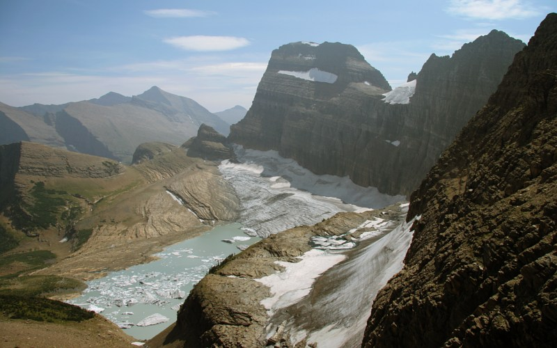 Grinnell Glacier in Glacier National Park (US) is in the center background. The pro-glacial lake is due to massive retreat of the glacier in recent decades. Another smaller glacier known as the Salamander is in the lower right of the image. At one time in the past, these two glaciers were connected.